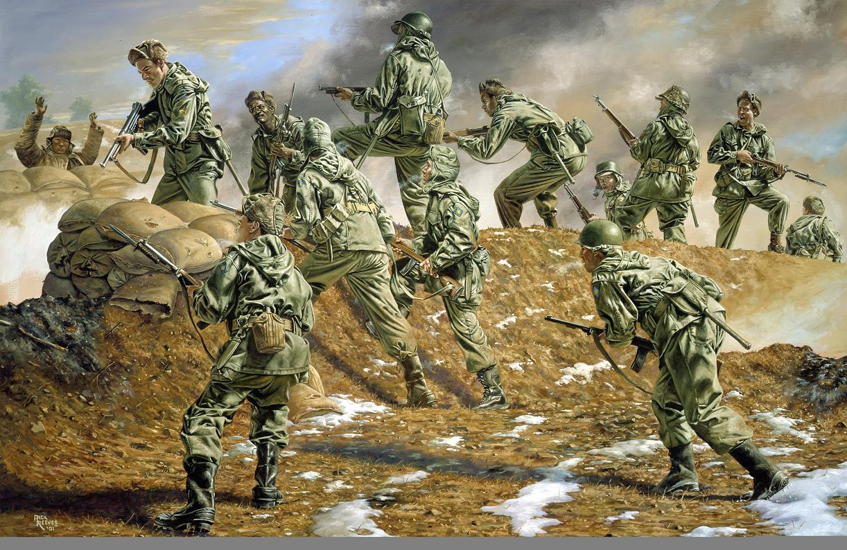 After North Korea invaded South Korea on 25 June 1950, United States armed forces fought to repel Communist aggression. President Harry Truman and his advisors, not wanting the conflict to escalate into World War III, had major concerns about mobilizing reserve forces, but ultimately decided that it was a military necessity and authorized mobilization in 19 increments beginning in July 1950. Hundreds of Army and Air National Guard units were mobilized, including the 40th Infantry Division of the California Army National Guard. The "Sunshine Division" mustered into Federal service 1 September 1950 at Camp Cooke, later renamed Vandenberg Air Force Base, California. The 40th Division deployed to Japan in the spring of 1951 and trained there for months while senior Army commanders debated employing the division in Korea as a unit or as individual replacements. Eventually, in January 1952, the 40th arrived in Korea and relieved the 24th Infantry Division in place, assuming control of its positions and equipment. By 1952 the war had evolved into static defensive combat of trench and bunker warfare and small unit patrolling. The 40th Division fought mostly in platoon and company actions in the Kumsong and Kumwha Valley sectors. Though relatively minor compared to earlier battles in Korea, these small unit actions were often violent and intense. Because of the delays in deploying to Korea, many of the original California Guardsmen began to rotate home in the Spring of 1952 and were replaced by draftees. By July only a few Guardsmen remained in Korea. The 40th fought at Heartbreak Ridge and was defending the northern edge of the "Punchbowl" as the armistice came in July 1953. Today's 40th Infantry Division of the California Army National Guard carries the Lineage and Honors of the "Sunshine Division" from the Korean War.